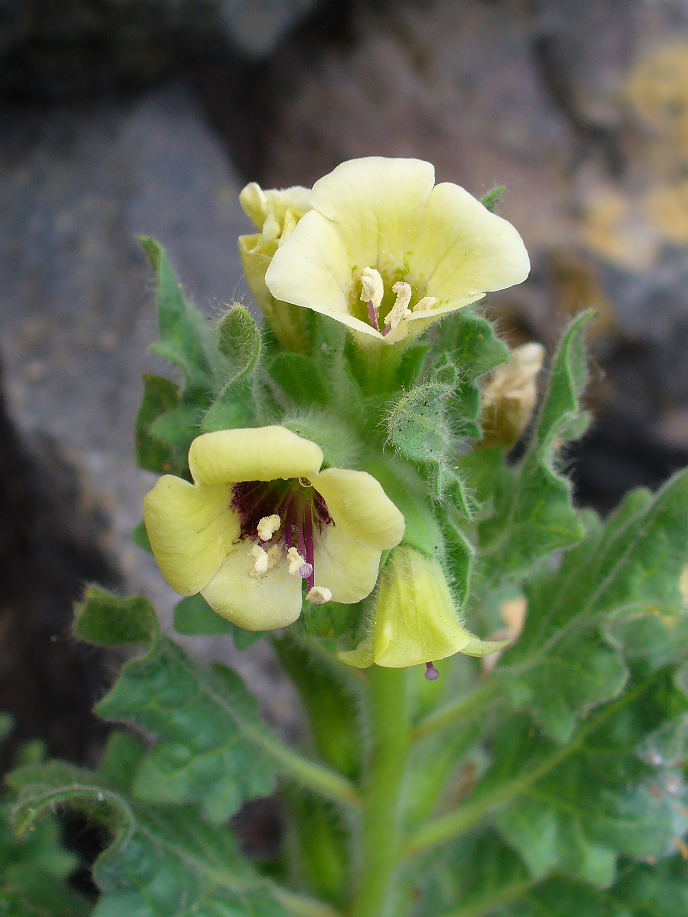 White Henbane; Flower; Los Cancajos, La Palma, Canary Islands, Spain.